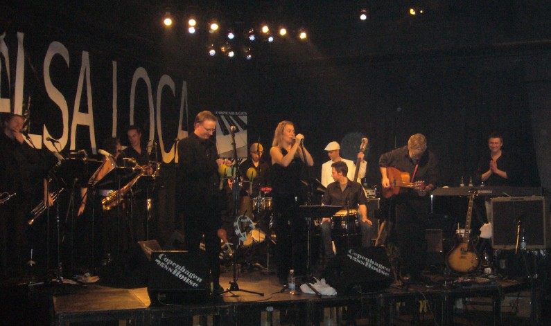 Salsa Loca Live in Concert at Copenhagen Jazzhouse